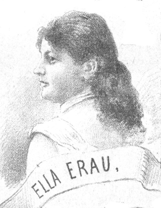 Portrait of Ella Erau (1871-??), Austrian actress. Cropped from a gallery of artists, engaged at "Das Deutsche Volkstheater" in Vienna.